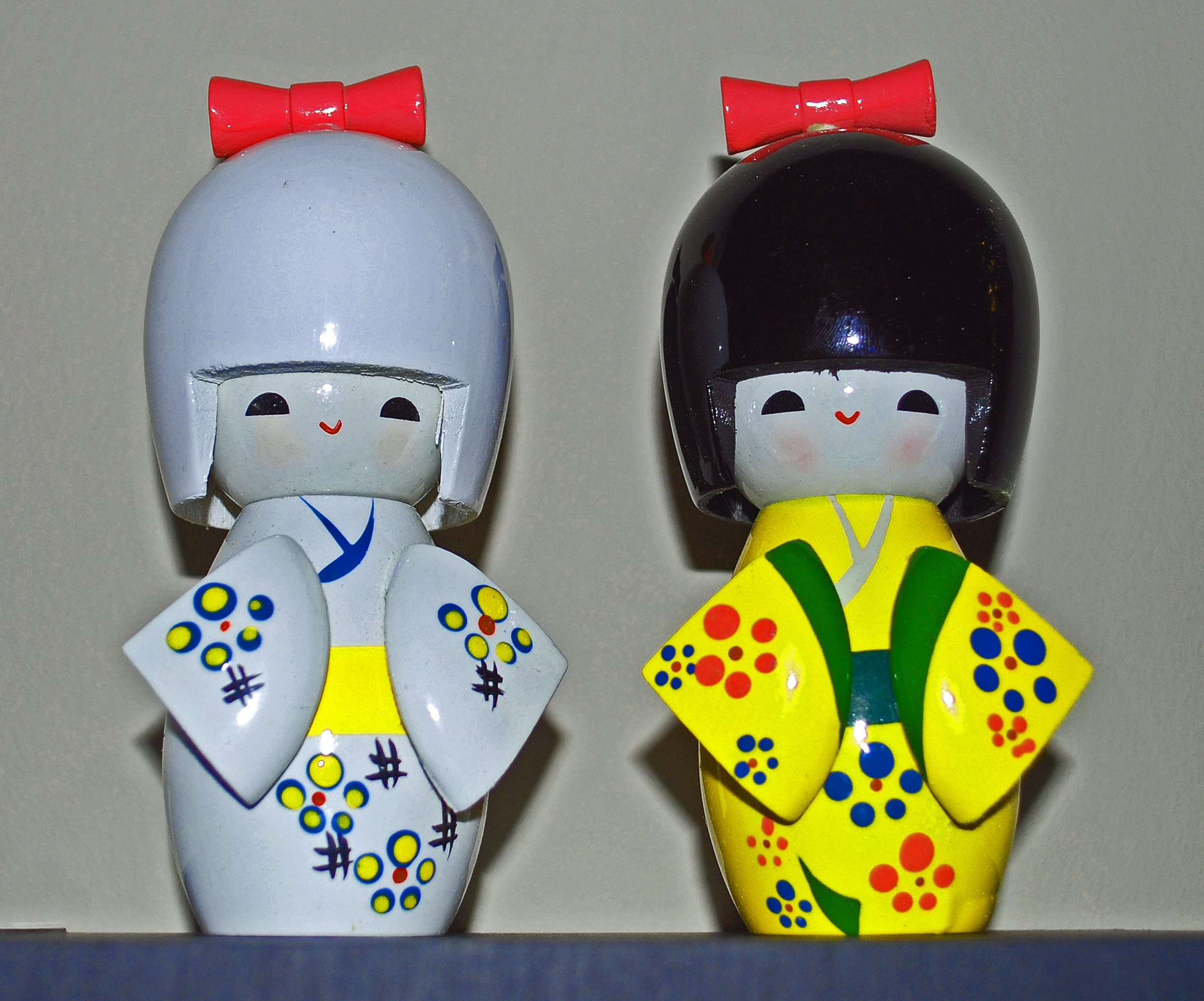 Modern type of Kokeshi.